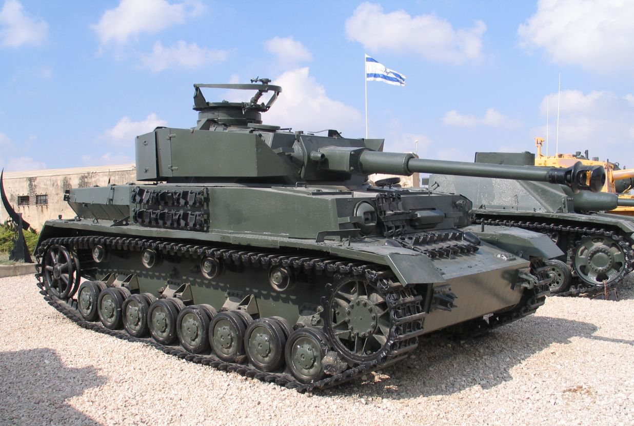 Description: PzKpfw IV Ausf J, captured from the Syrian Army in the Six Day War, in Yad la-Shiryon Museum, Israel. 2005, with a Sturmgeschutz III in the background. Source: Photo by me, User:Bukvoed.